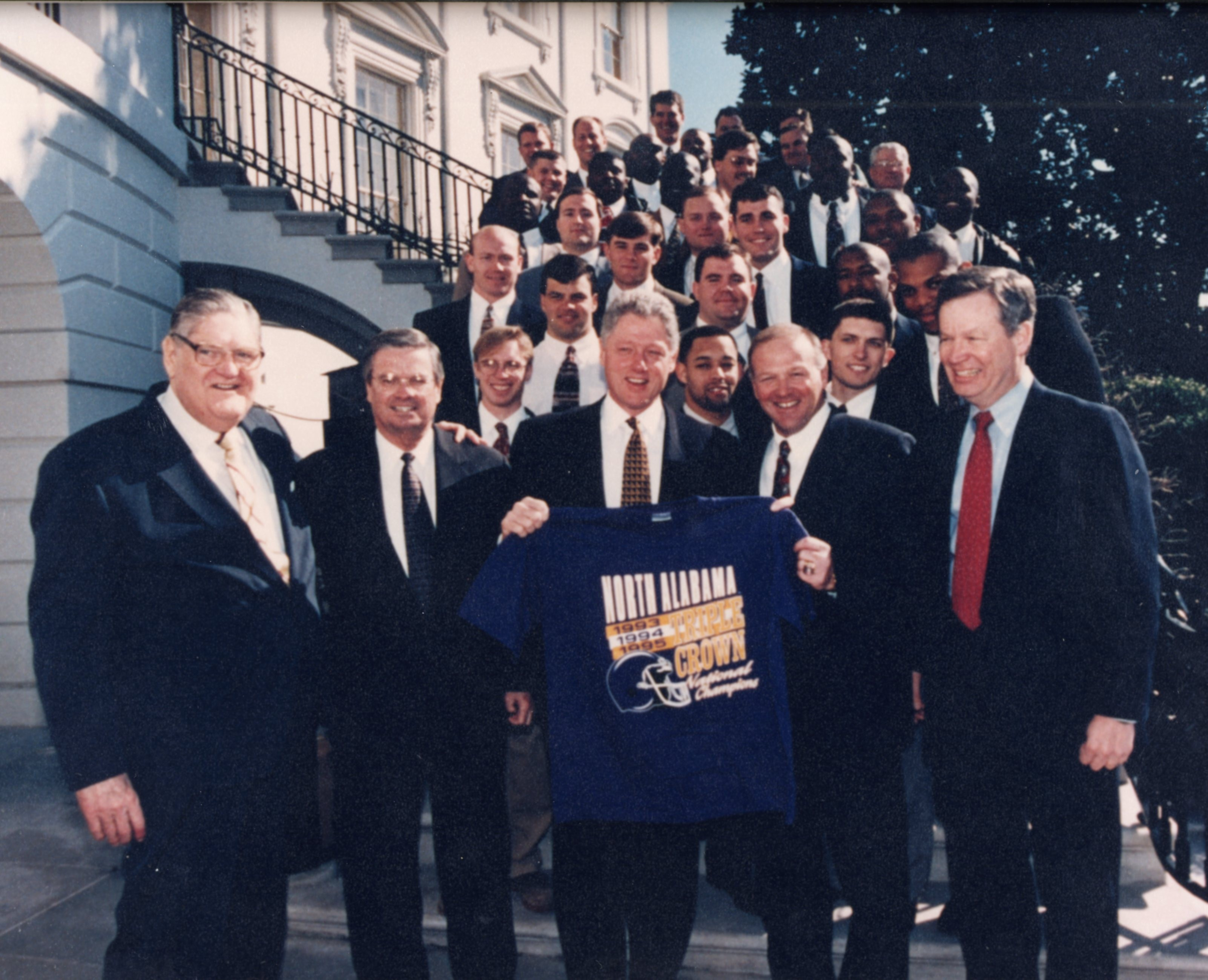 Provided courtesy of the University of North Alabama Collier Library Archives. Picture of UNA's 1995 National Champion Football team posing with President Clinton.